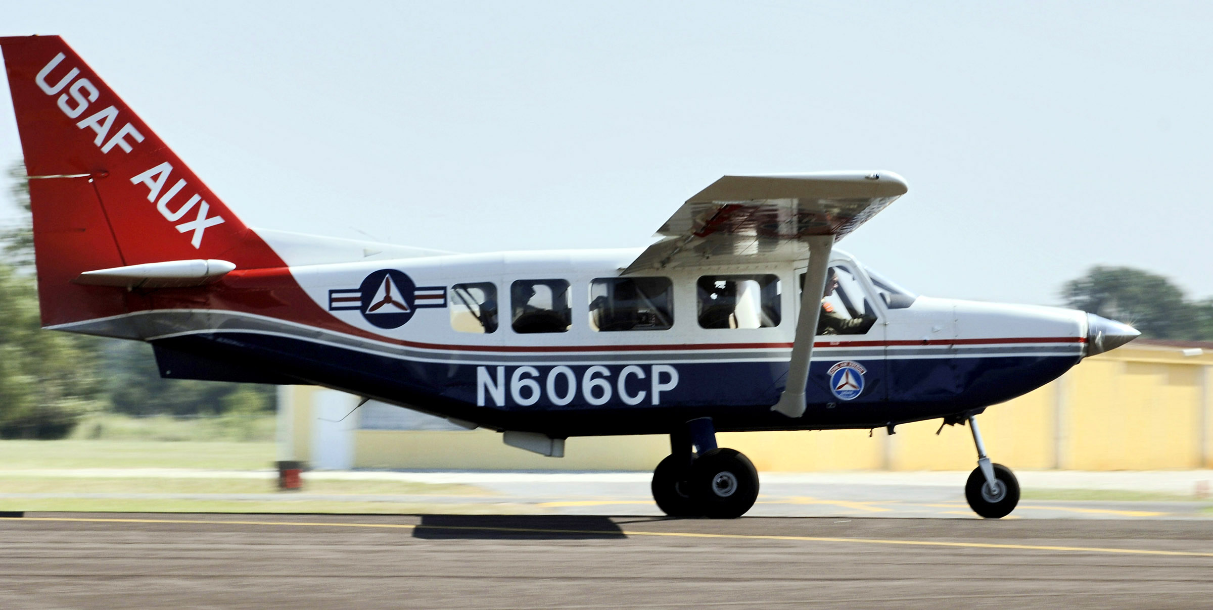 A Gippsland Aeronautics GA8 Airvan accelerates down the runway on takeoff. It is one of the Civil Air Patrol aircraft that came to West Houston Airport to support the assessment of Hurricane Rita. The GA8 is the latest aircraft in the CAP inventory. FAA Registry